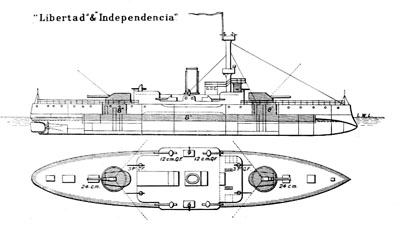 Dibujo ARA Independencia